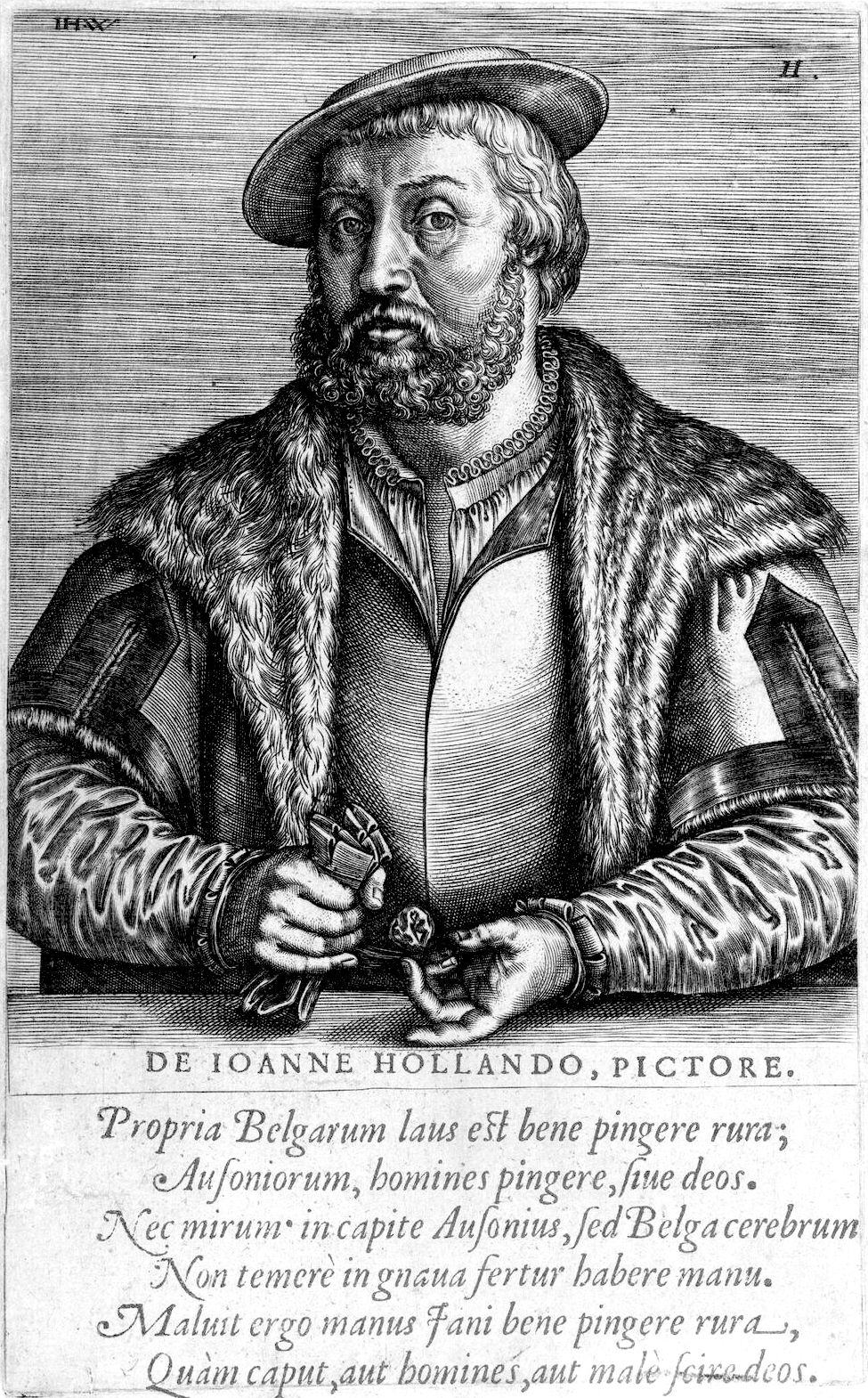 Jan van Amstel engraving 15.4 x 12.6 cm 1572 inscribed t.l.: IH.W inscribed b.: DE IOANNE HOLLANDO, PICTORE. / Propria Belgarum laus est bene pingere rura ; Ausoniorum, homes pingere, fine deos. / Nec mirum in capite Ausonius, fed Belga cerebruym / Non temerè in gnaua fertur havere manu. / Maluit ergo manus Fani bene pingere rura, Quàm caput, aut hominés, aut malè scire deos.